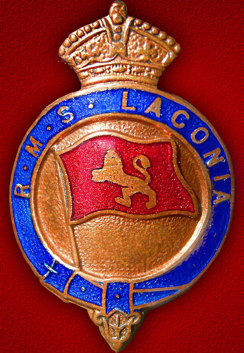 Cloisonné crest of the Cunard liner RMS Laconia including the Cunard Line standard surrounded by a blue garter and, as a Royal Mail Ship, a Royal Mail pre-war design "crown" logo, decorating a surviving silver plate "bud" vase from the liner's main dining salon. The day after Britain had declared war on Germany on September 3, 1939, the British flagged liner was requisitioned by the Admiralty, converted first into an armed merchant cruiser, and then in 1941 to a troop transport. Three years after entering national service, however, the Laconia was torpedoed and sunk in the Atlantic Ocean on the evening of September 12, 1942, by the German submarine U-256. It went down about 130 miles north-northeast of Ascension Island with the loss of over 1,600 passengers and crew. Most of those lost were Italian POW's being transported to England from the Middle East. (The Cooper Historic Transportation Collection)